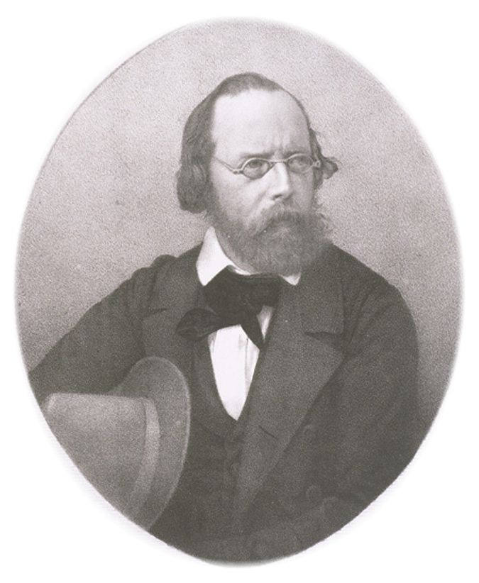 This etching was made after Ludwig Becker's death in Australia in 1861. In 1860 Becker was asked to join Robert O'Hara Burke's expedition from Victoria to the Gulf of Carpentaria, to collect specimens, and make maps and illustrations of the journey. He died on the way, of scurvy and dysentery. Ludwig Becker had been a member of the Melbourne German Club and Frederick Schoenfeld produced this 1861 lithograph for the club as a memorial portrait.